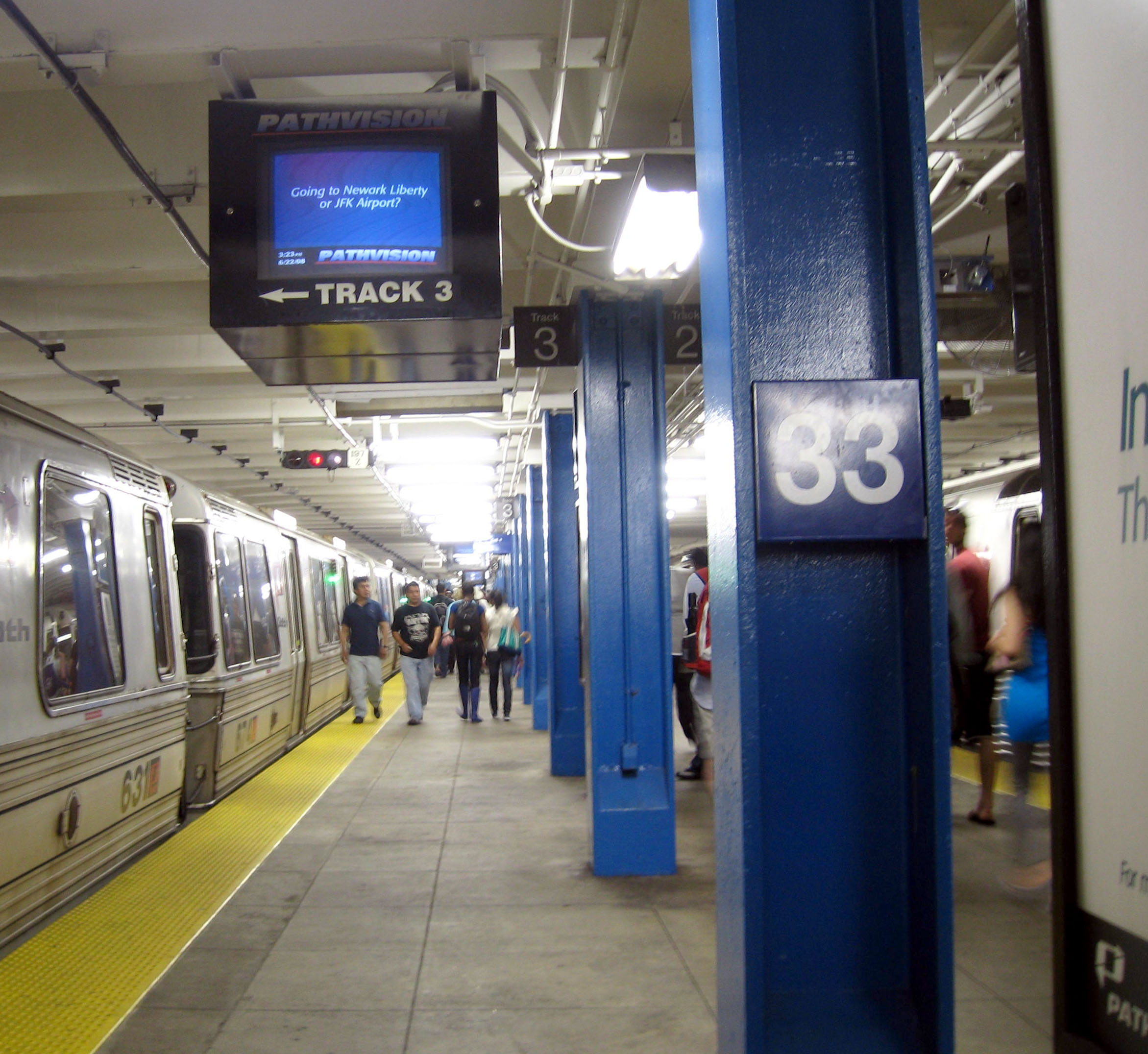 Looking north on west platform of en:33rd Street (PATH station) on a weekend